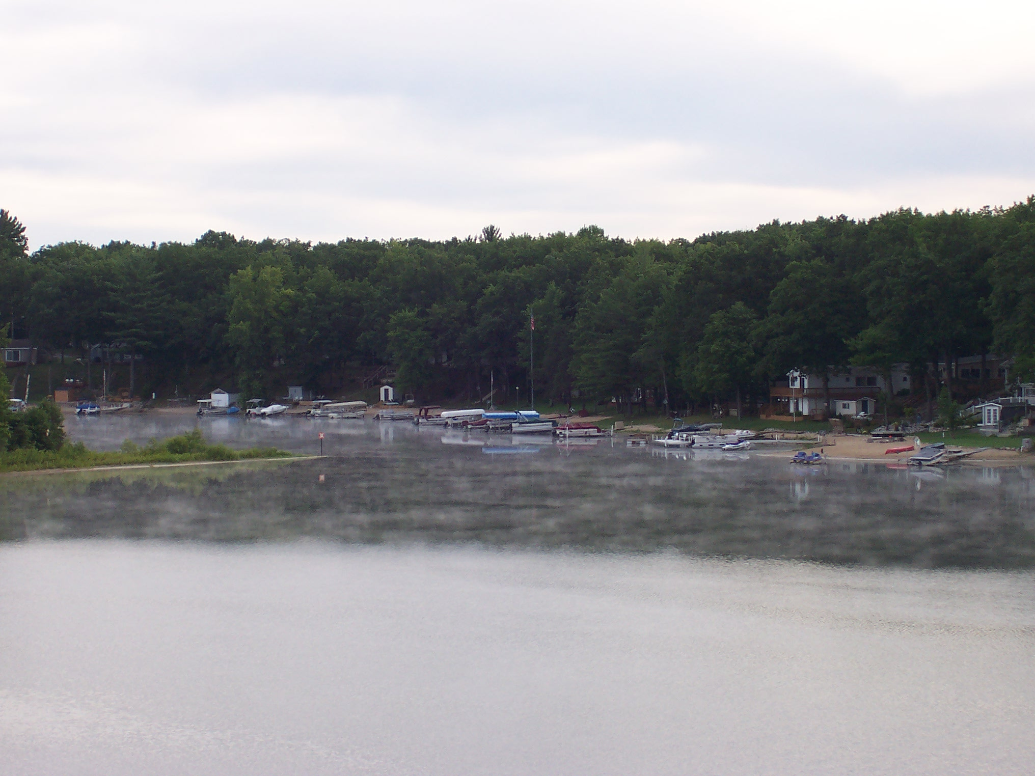 Boats and cottages on Budd Lake in Harrison, Michigan